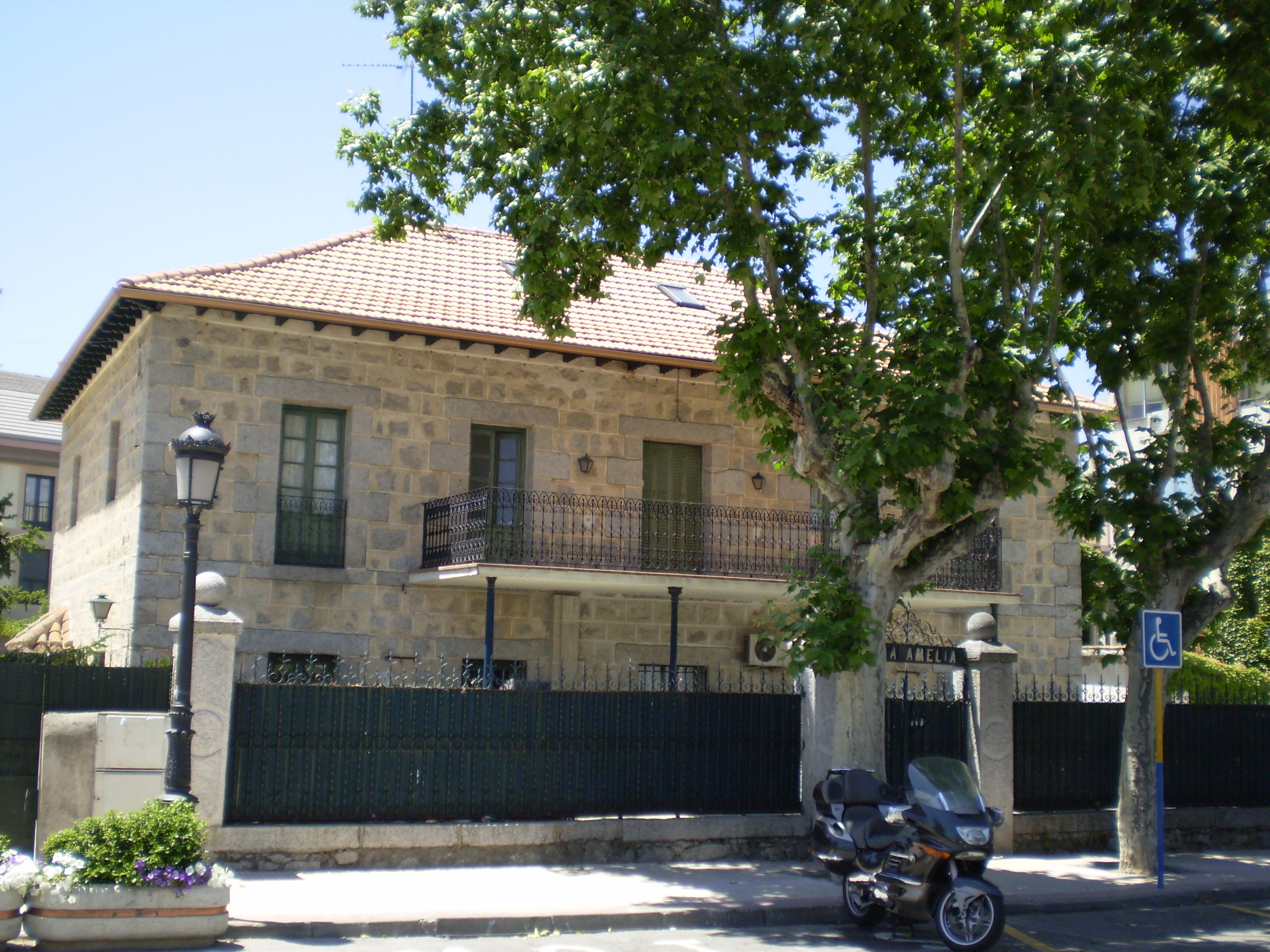 Building in Carlos Picabea St. Torrelodones, Madrid, Spain